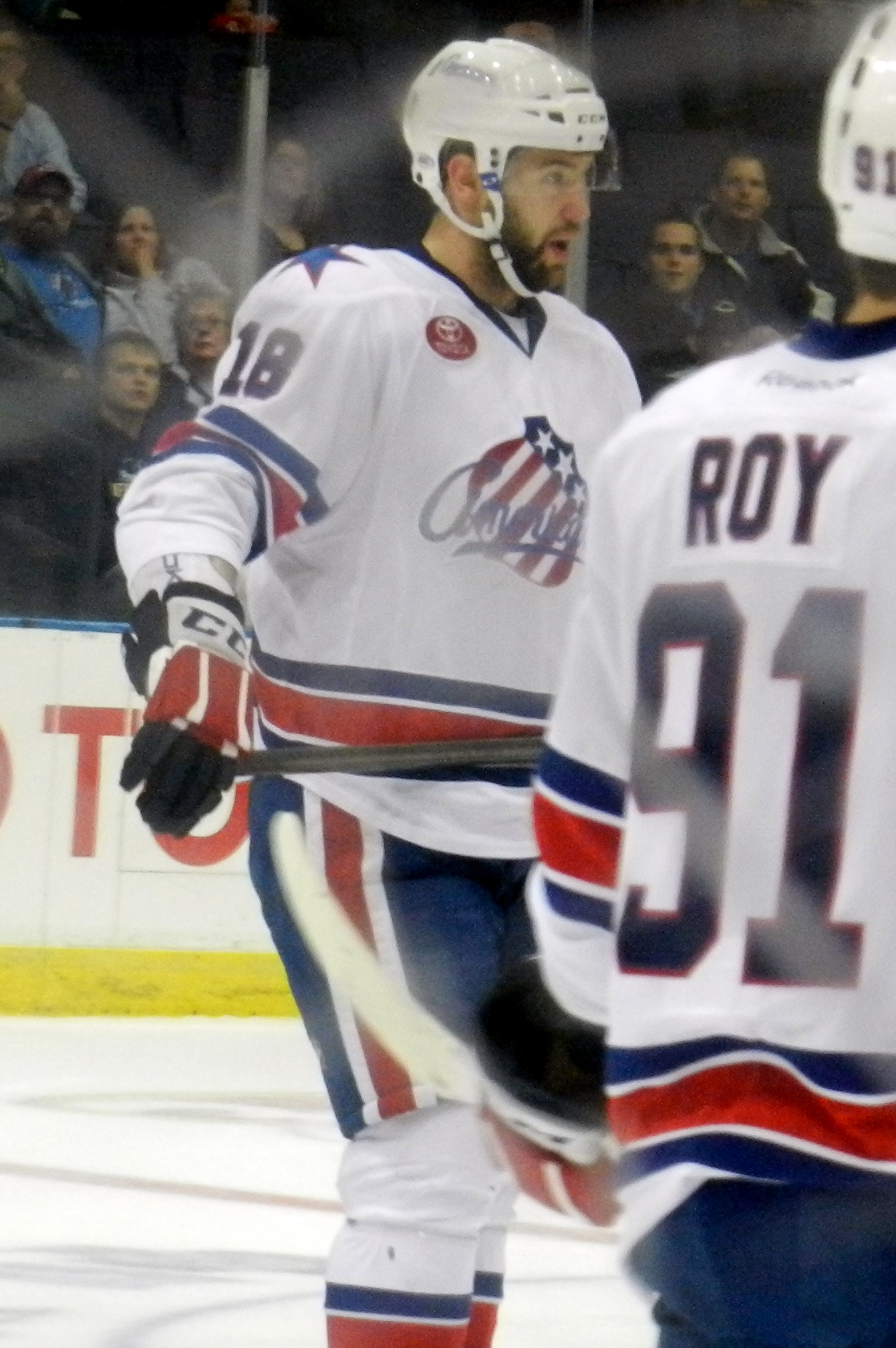 Colton Gillies playing for the Rochester Americans during the 2013-14 AHL season